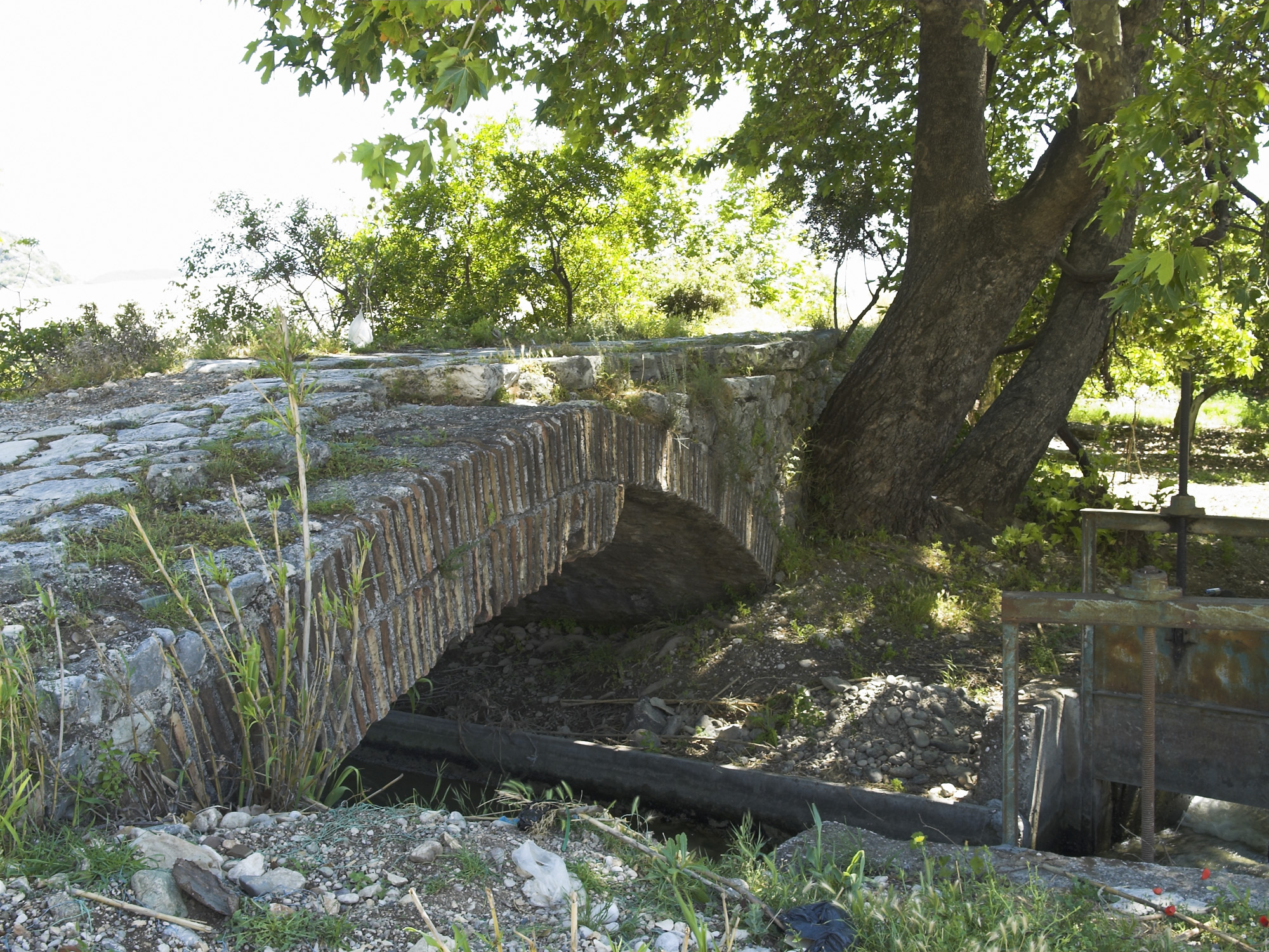 The Roman Bridge near Limyra, Lycia, Turkey. First arch southside. The late antique structure is one of the oldest segmental arch bridges in the world. The 360 m long bridge crosses on 28 arches the Alakır Çayı, 26 of which being segmental arches with an average span to rise ratio of 5.3 to 1. Today, the structure is buried up to the vaults by river sedimentation.